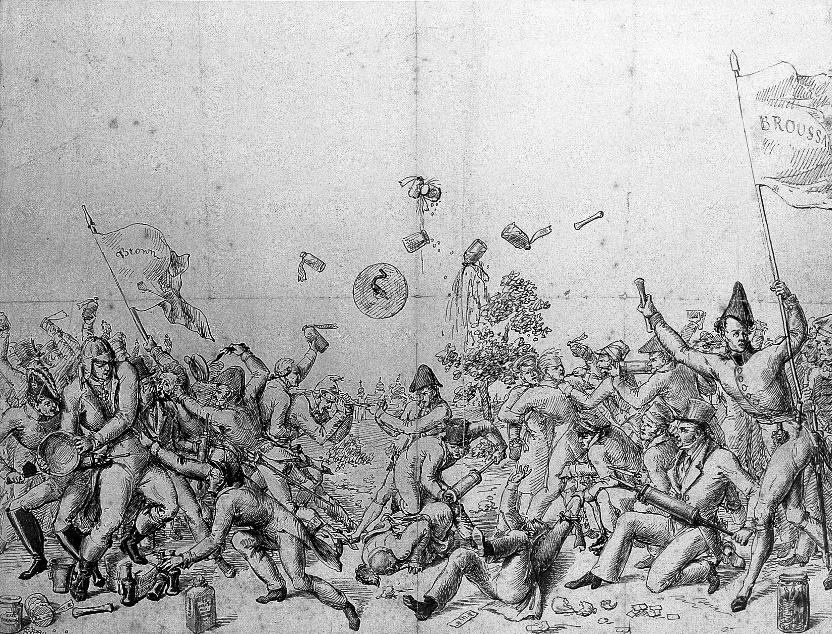 A fierce battle between the supporters of John Brown (Bruno), opposed to blood-letting, and those of F.J.V. Broussais, in favour of blood-letting. Pen drawing. Iconographic Collections Keywords: Francois-Joseph-Victor Broussais; John Brown [Bruno]; Carle Vernet In the early nineteenth century there were several rival medical systems, including Brunonianism, the system of Broussais, phrenology and homoeopathy, in addition to variations on traditional western medicine. Brunonianism, the theory of John Brown (1735-1788), regarded most illnesses as due to a deficit of stimulation, requiring treatment with medicines based on opium or alcohol. In France, François Joseph Victor Broussais (1772-1838) proposed a theory of irritability which was to be controlled by purging and especially bloodletting. Brown acquired a European reputation, especially after his death. Broussais tried to ridicule Brown and his followers in many of his verbose writings. The short-lived success of their competing systems illustrates the fatal attractiveness of over-simple theories. This drawing, probably by a French or German hand, shows a battle between the rival partisans of Brown (on the left) and Broussais (on the right): they are identified by military standards (flags) inscribed "Brown" (left) and "Broussai" (right)